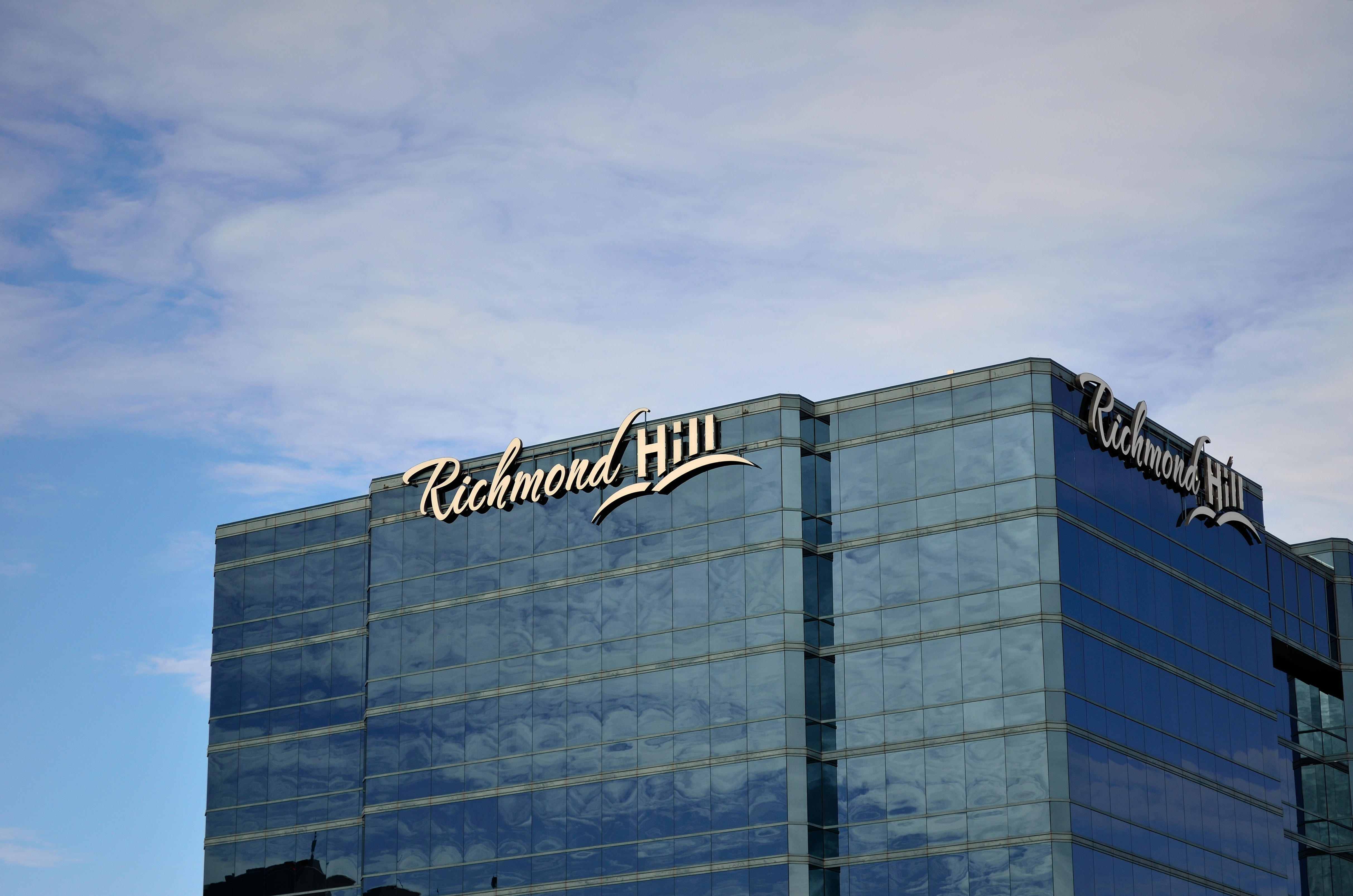 Town of Richmond Hill225 East Beaver Creek Road Richmond Hill, Ontario